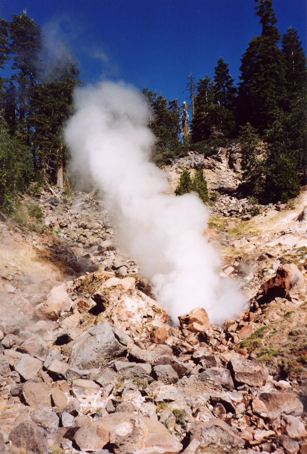 Terminal Geyser, Lassen Volcanic National Park, California, USA. My own photo. July 2003.